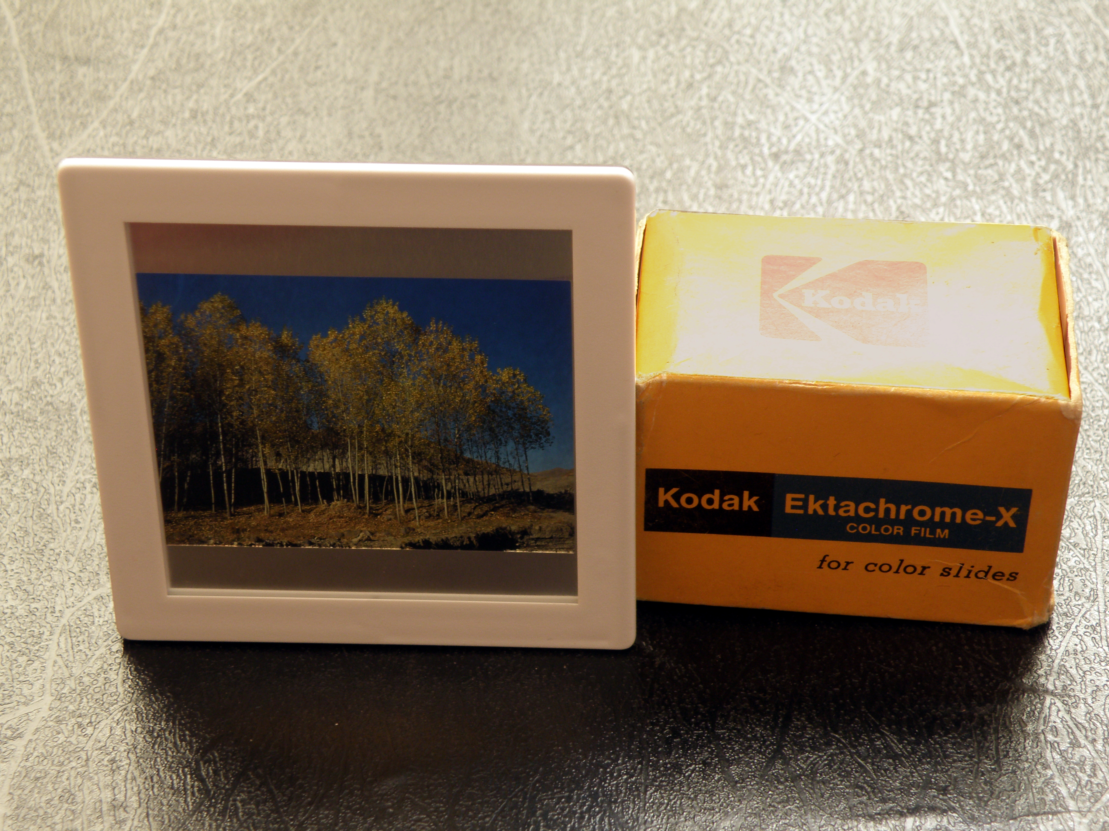 120 Slide in Gepe Anti -Newton magazine